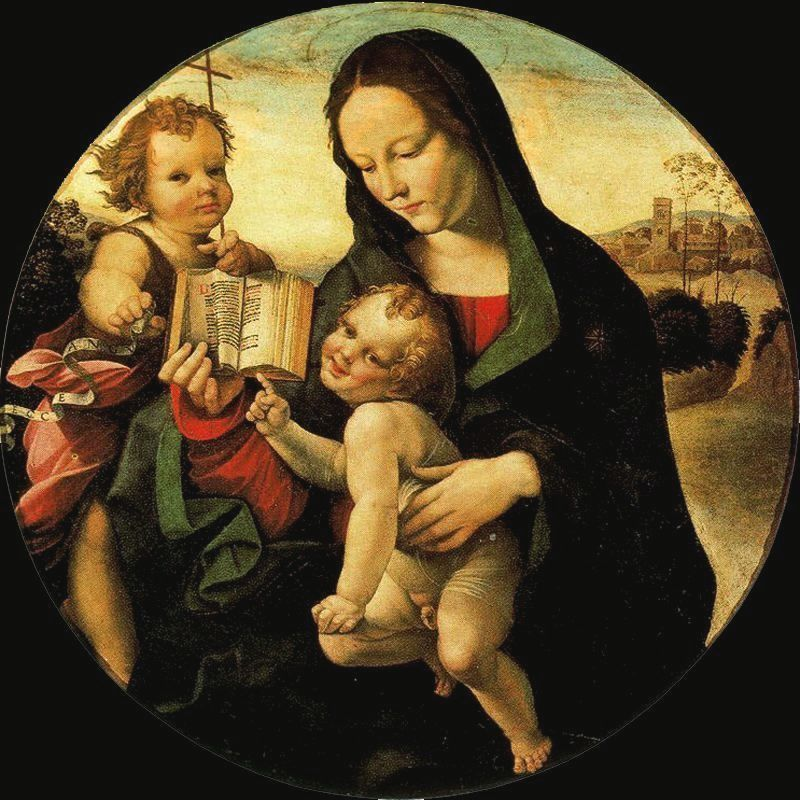 Madonna and Child - Pitti